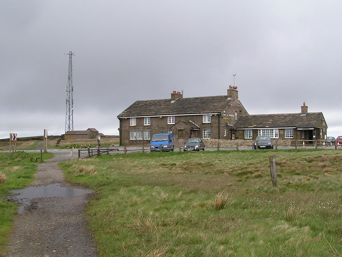 Cat and Fiddle public house, Peak District